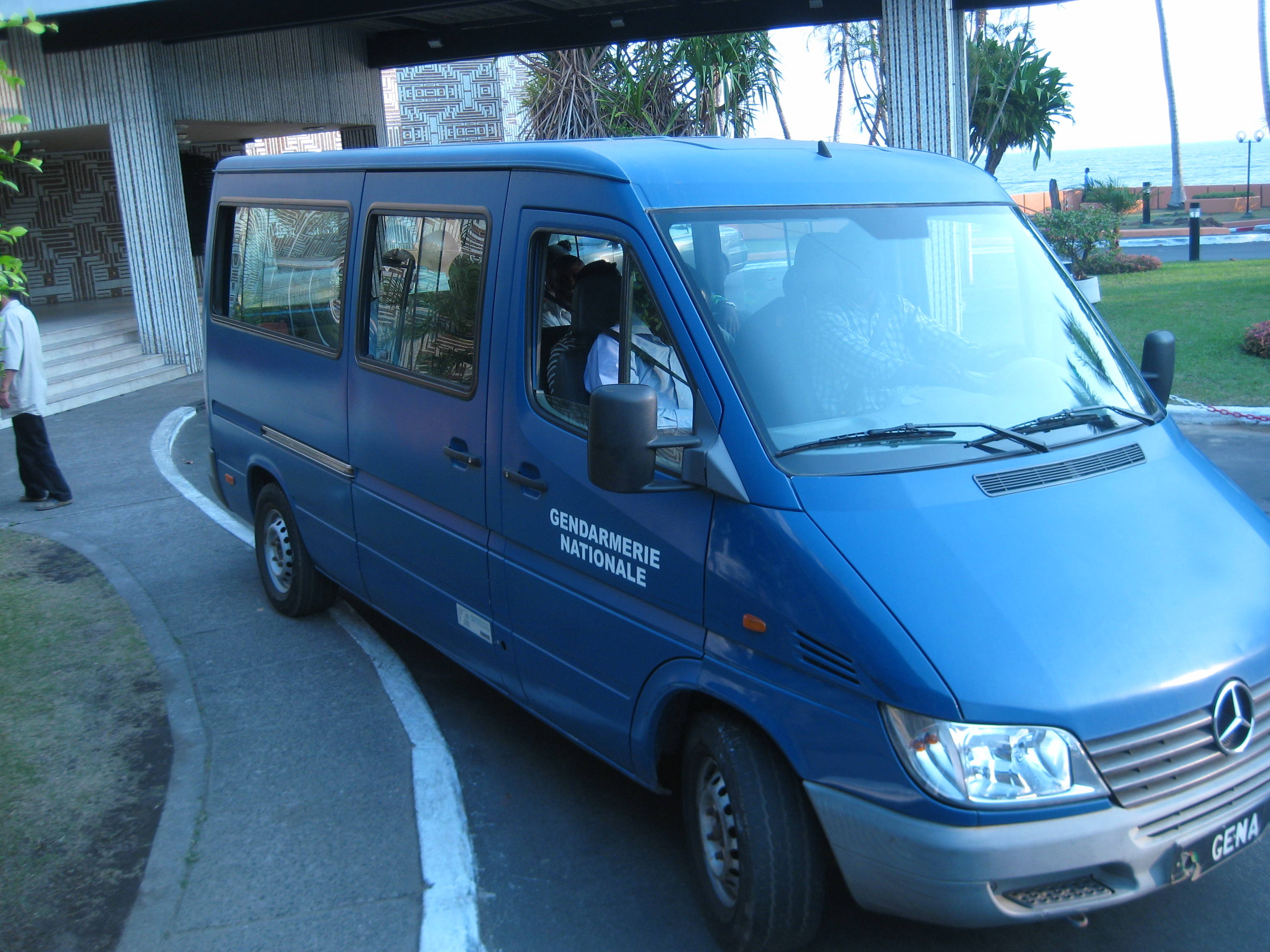 Mercedes Sprinter of the Gendarmerie nationale gabonaise headquarters staff outside the Meridien Re-Ndama hotel in Libreville.